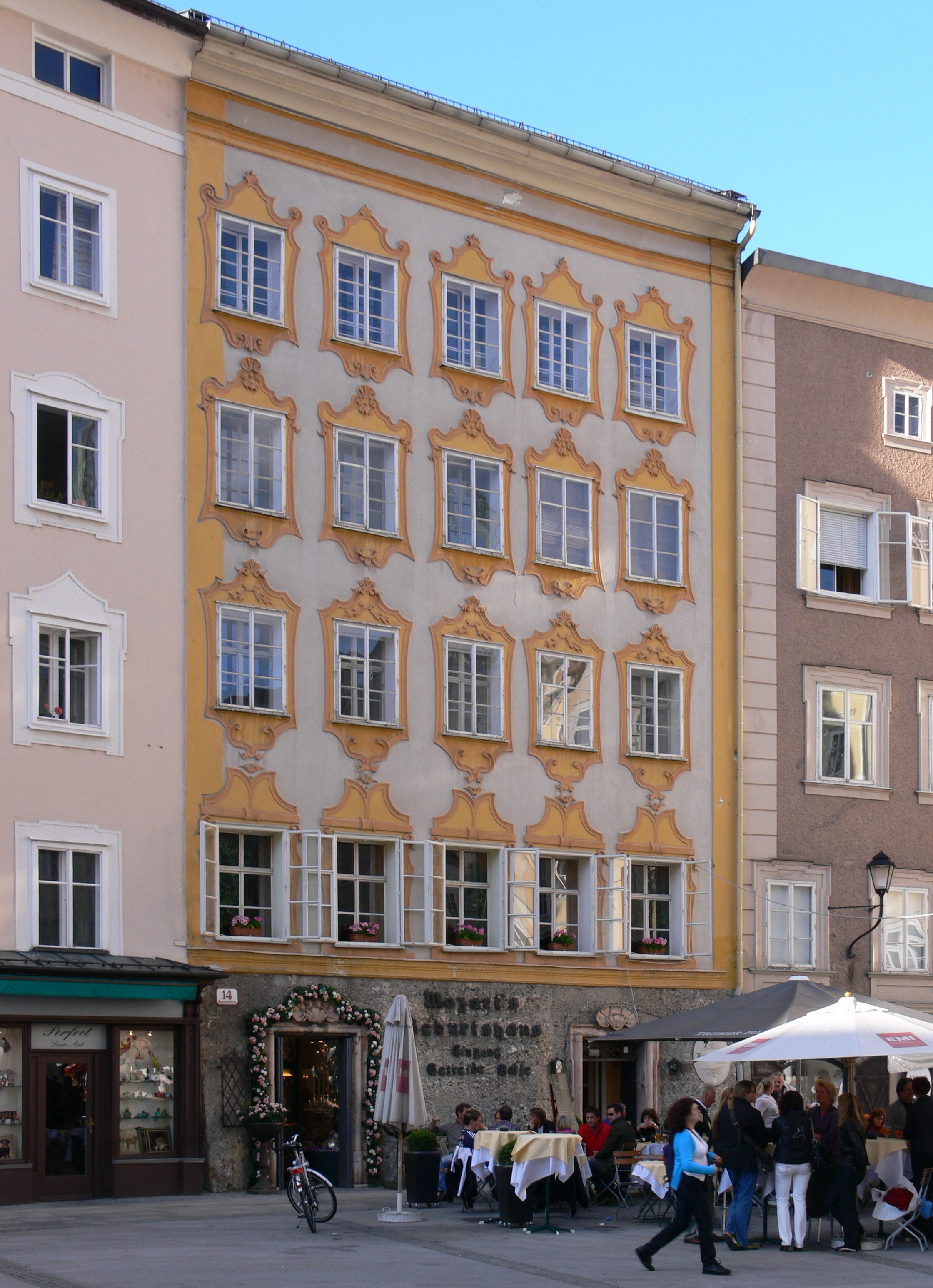 Austria, Salzburg, Getreidegasse